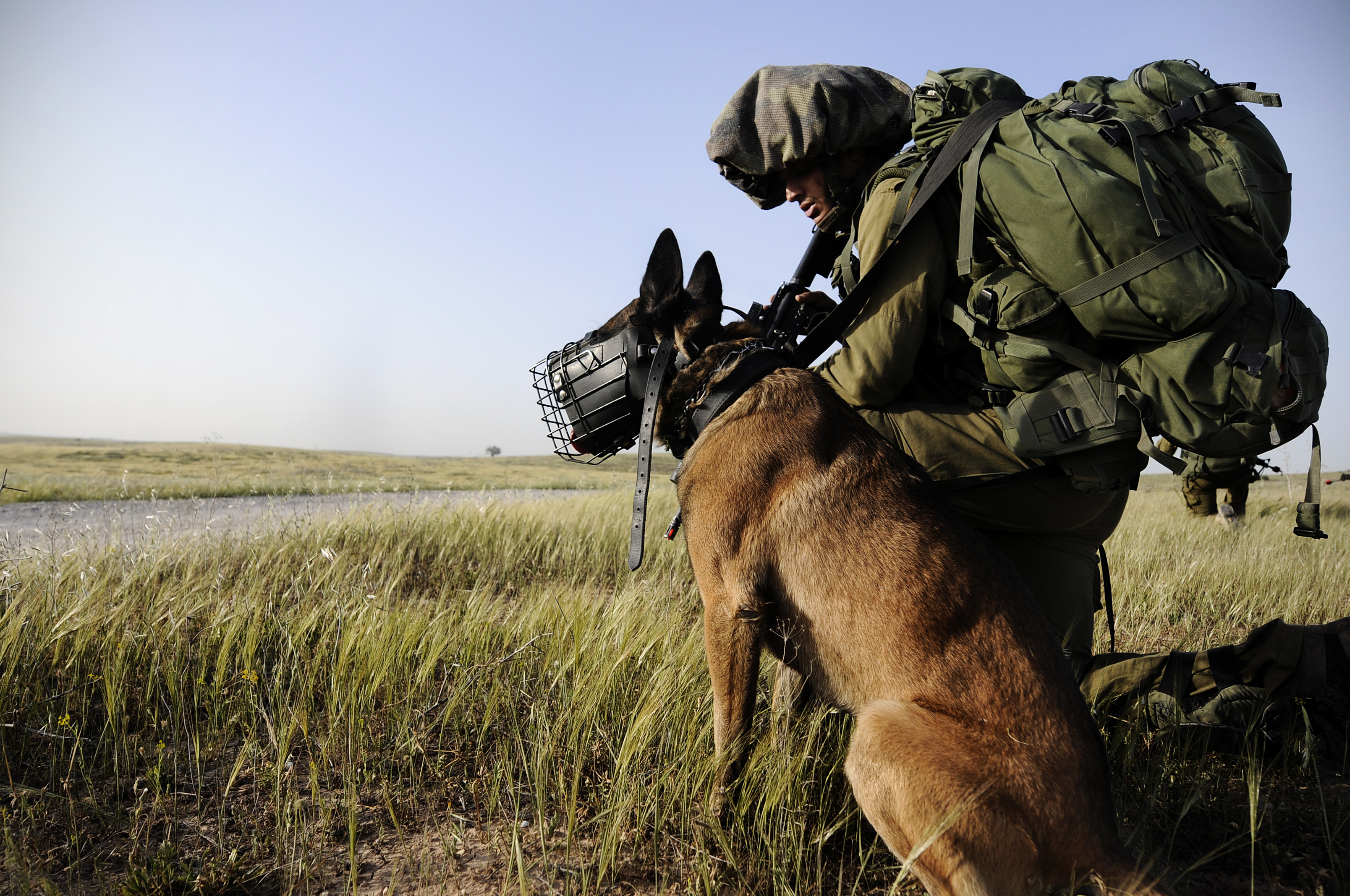 April 11, 2011 Oketz is the elite canine unit of the IDF. An Oketz soldier and his companion scope the scenery during an exercise. Photo taken by Cpl. Iris Liner, IDF Spokesperson's Unit The Israel Defense Forces Facebook The Israel Defense Forces blog Follow us on Twitter